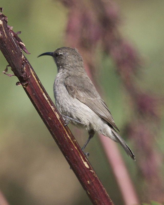 Southern Double-collared Sunbird female Cinnyris chalybeus Kirstenbosch, Capetown, South Africa 5th. October 2009 Distribution